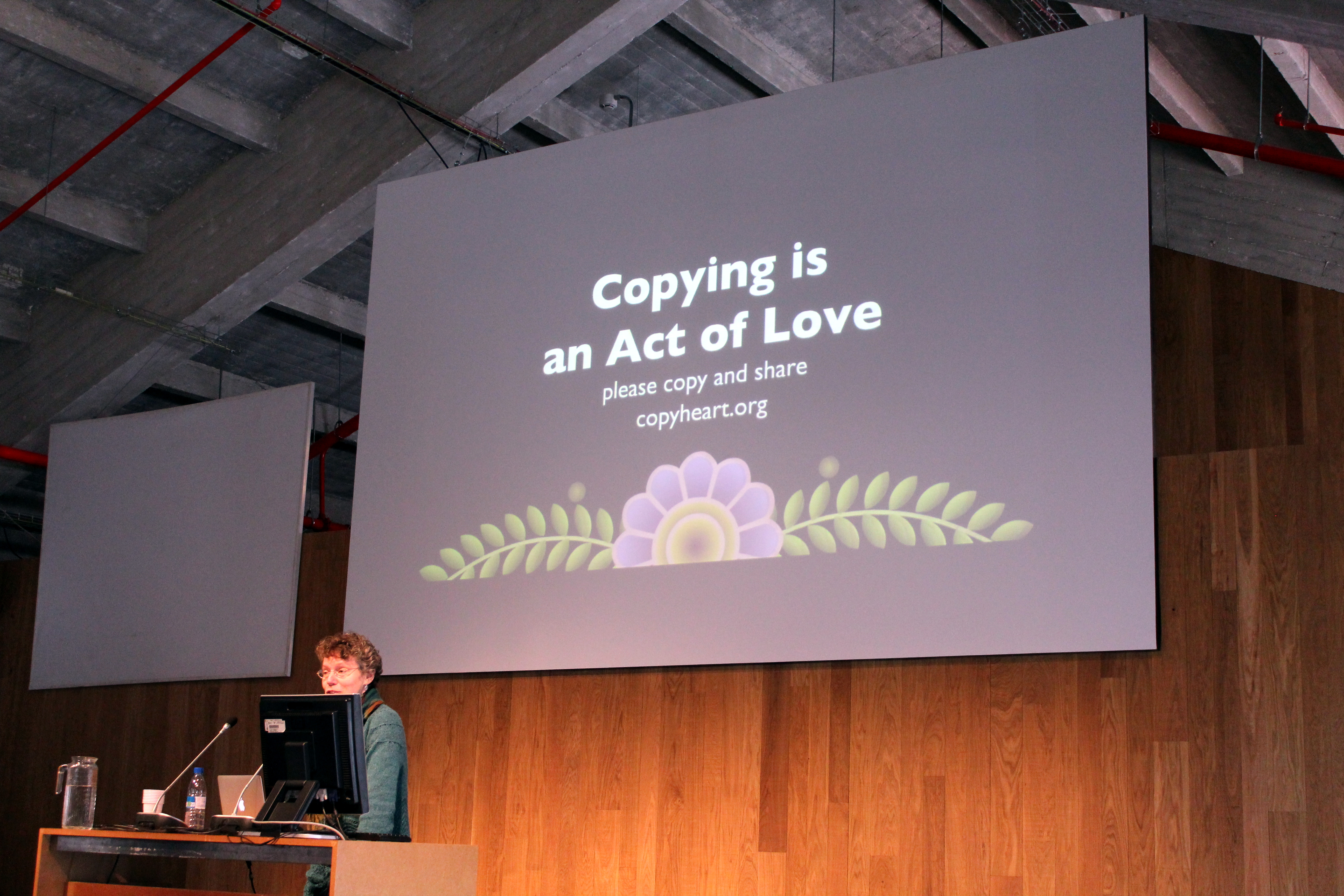 libre graphics meeting 2013 @madrid